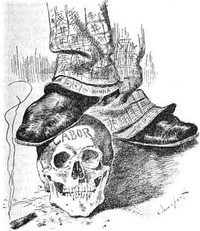 Homer Davenport cartoon attacking Senator Mark Hanna for his stand on labor, 1897